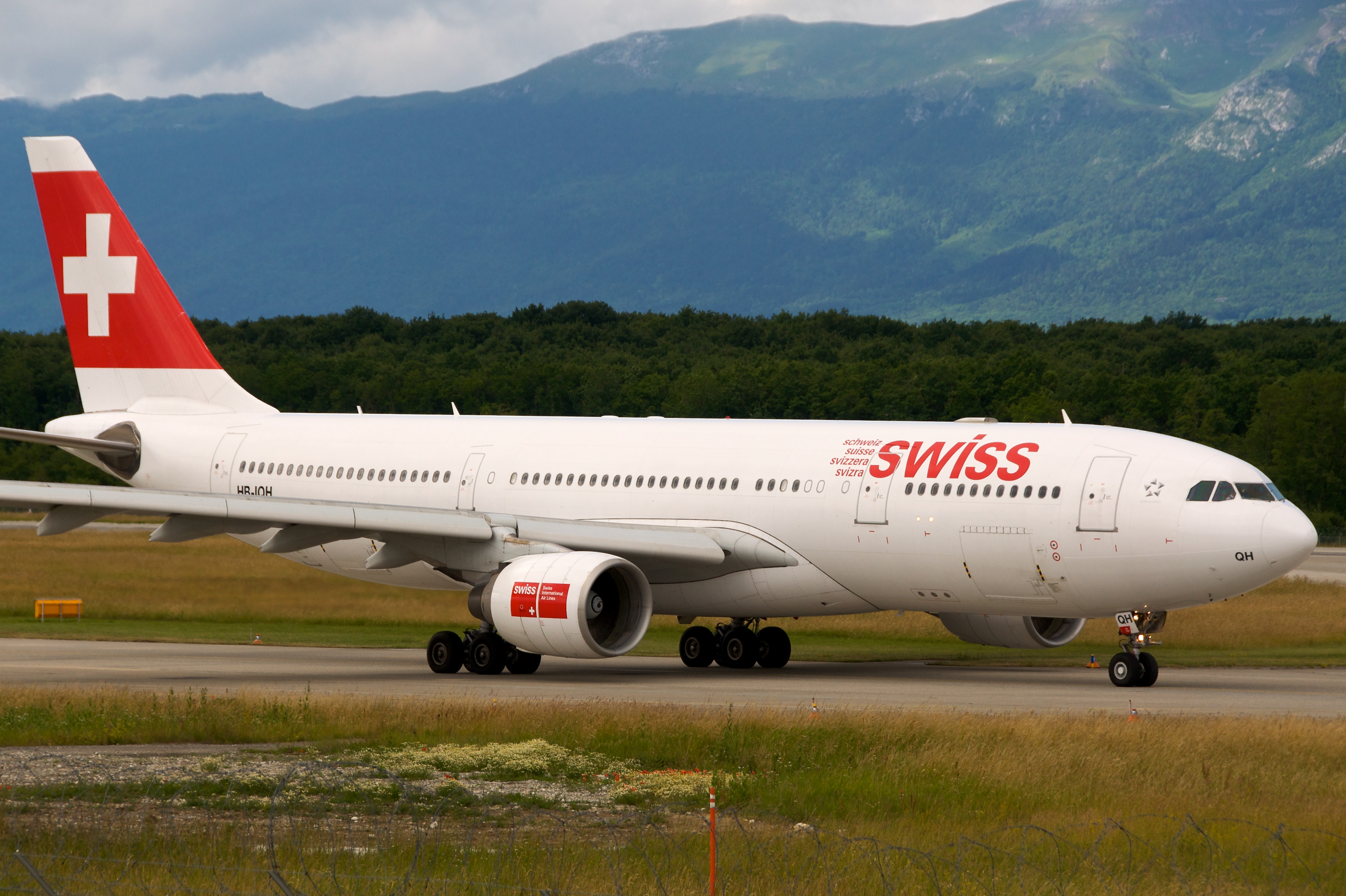 Swiss A330-200 HB-IQH in Geneva International Airport.